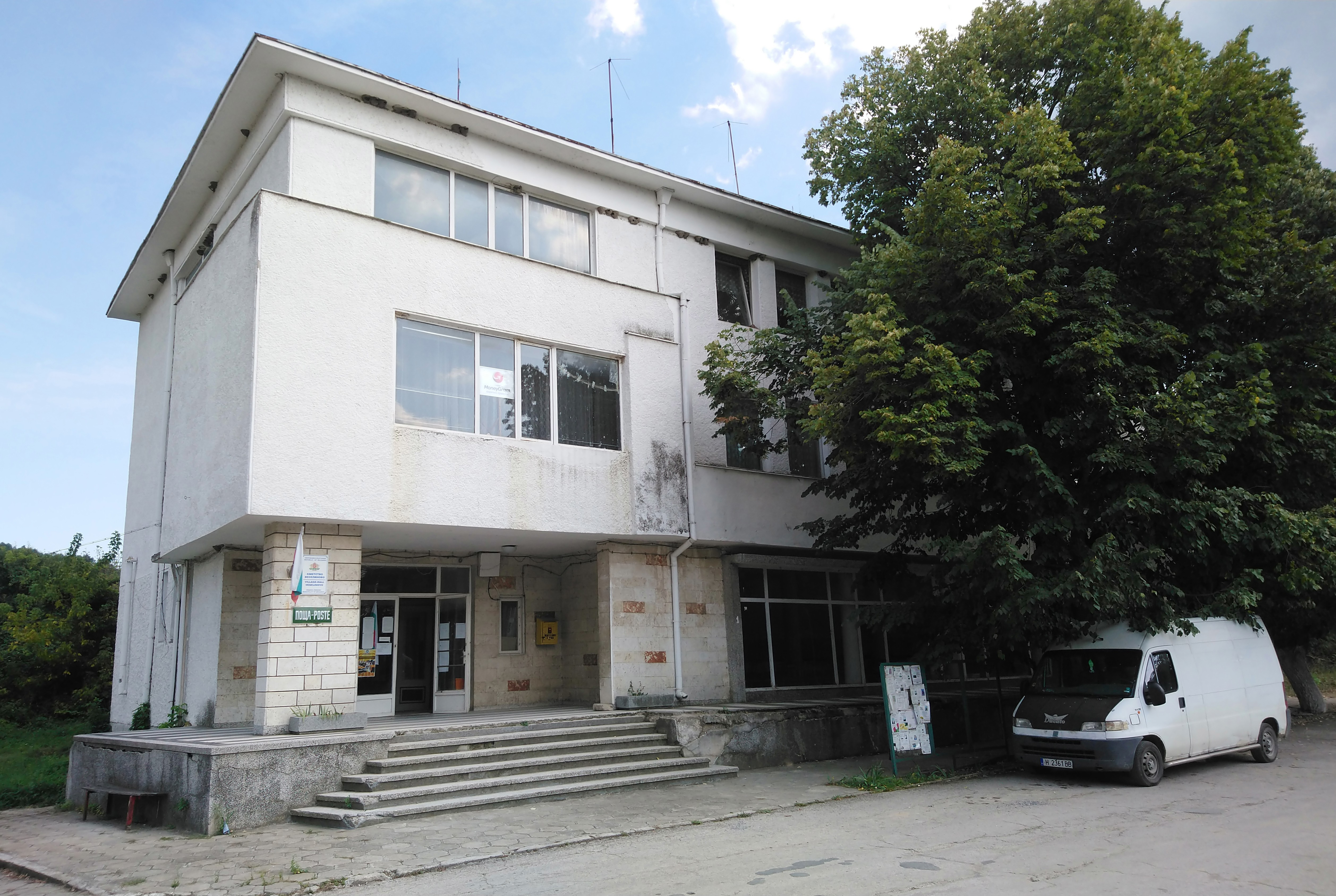 Veselinovo (Shumen Province): mayor office